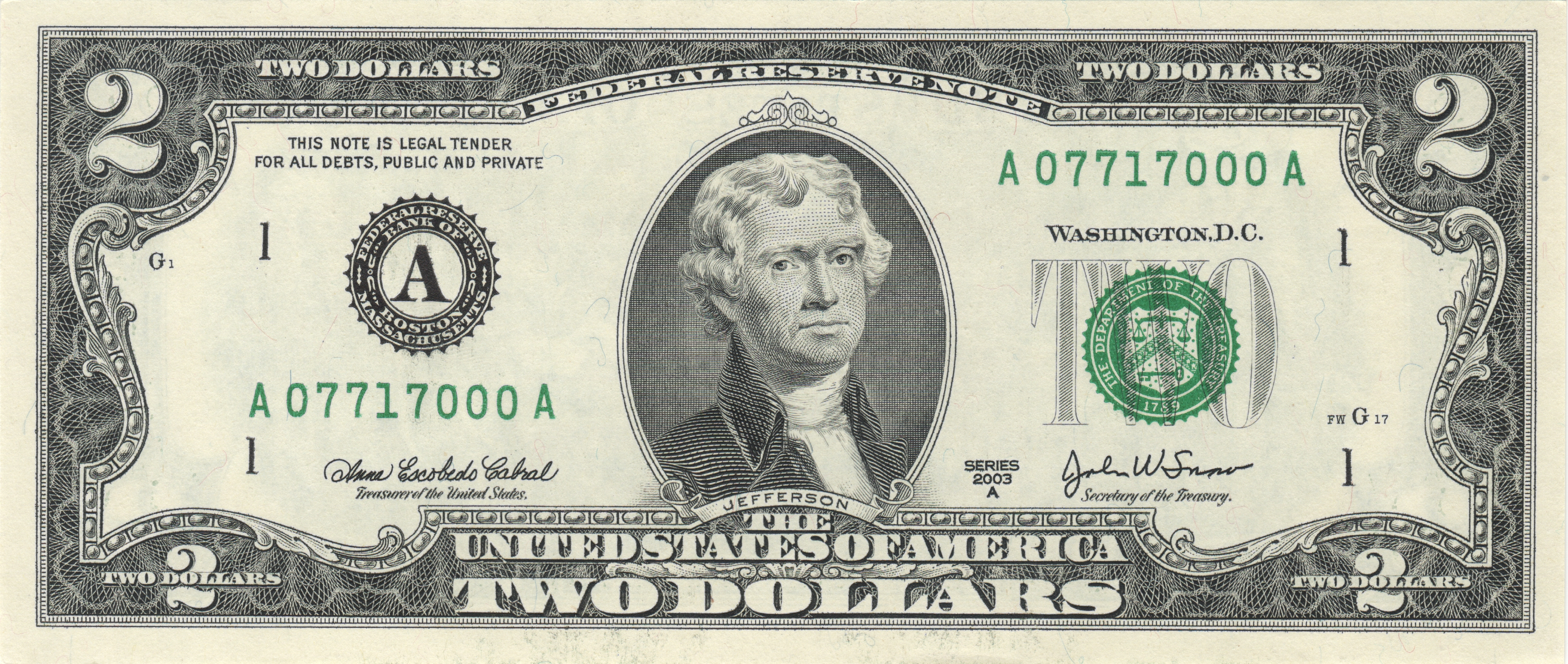 Image of U.S. two dollar bill.